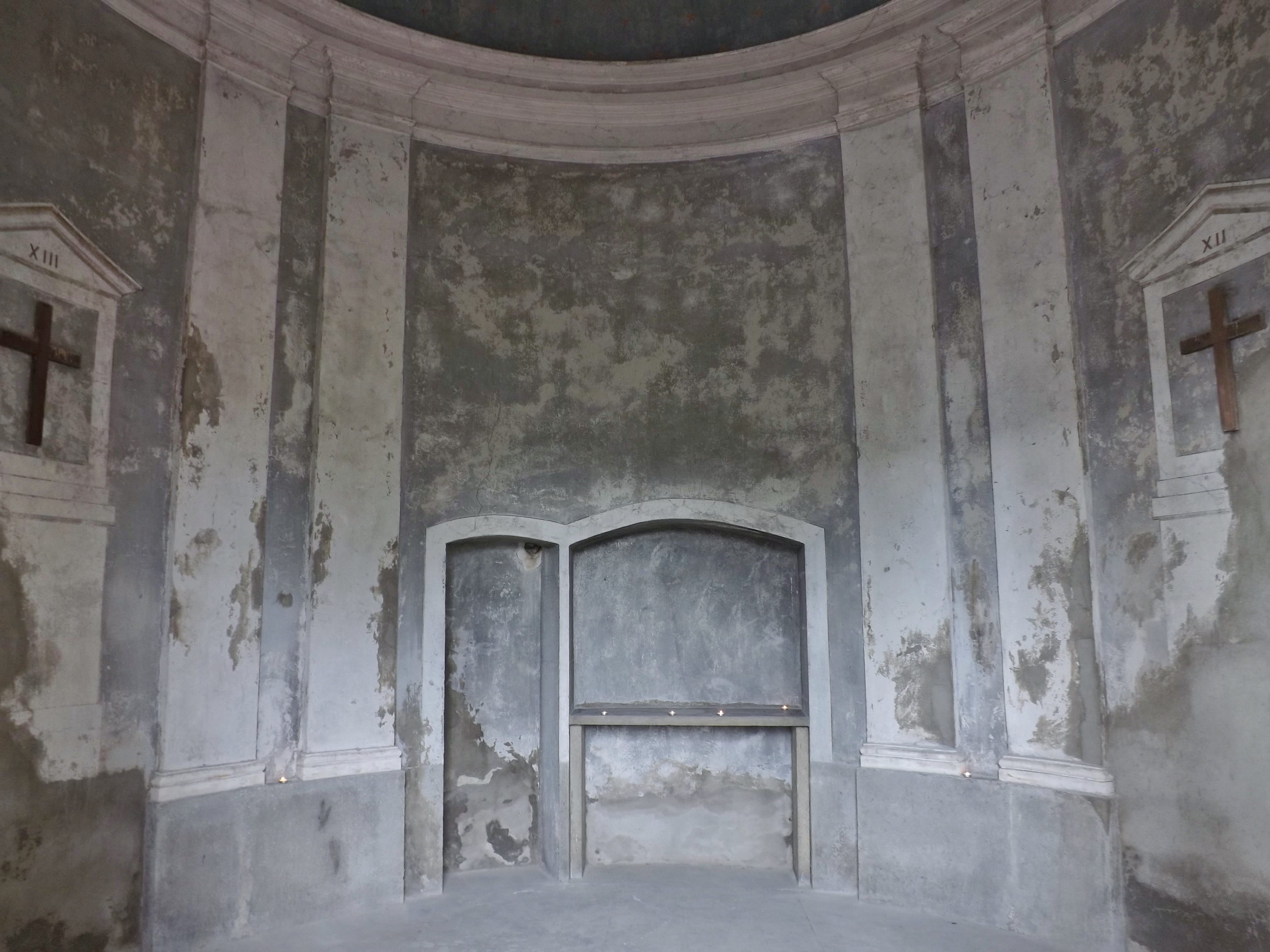 Sight of the inside of the Calvaire chapel, in Chambéry, Savoie, France.